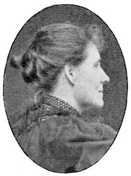 Image scanned from the book "Svenskt Porträttgalleri XX - Arkitekter, Bildhuggare, Målare m.fl. " ("Swedish Portrait Gallery XX - Architects, Sculptors, Painters, ") published 1901